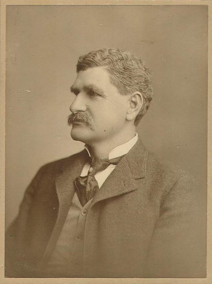 Studio portrait of James Harvey Crawford taken in 1902 when he was 57 years old.